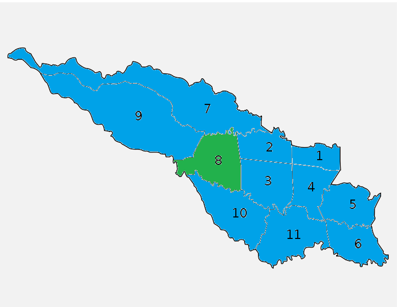 San José mayoral results 2016